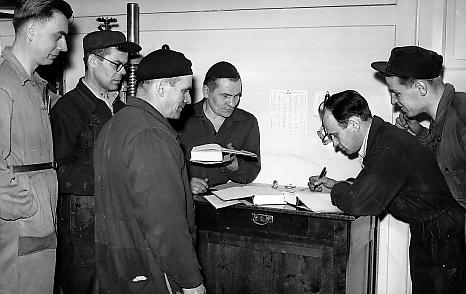 Väinö Linna signs copies of his novel Unknown soldier on his own workplace.